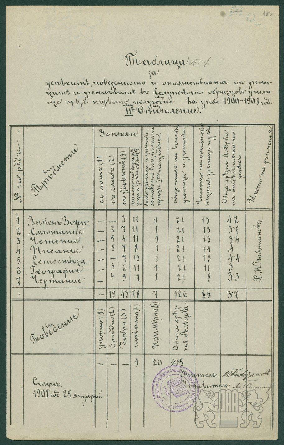 Report by Anton Popstoilov about the Bulgarian Primary School in Thessaloniki